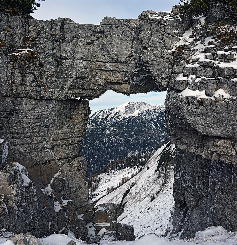 Loser rock window is a nice example of karst formations in limestone.